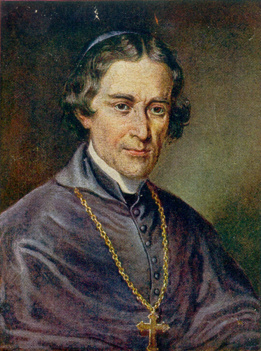 Irenej Friderik Baraga (1797-1868)